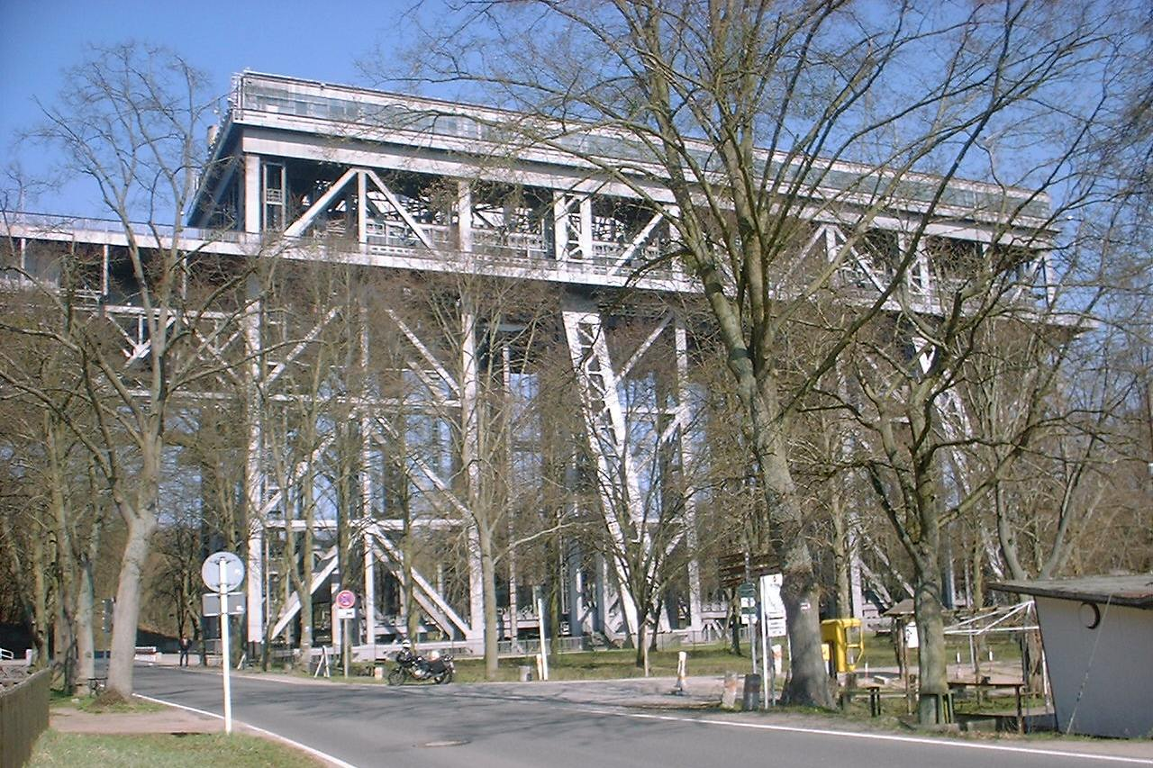 Schiffshebewerk Niederfinow seen from south